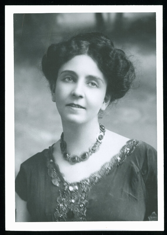 Portrait of Adrienne Herndon, dramatist and faculty member